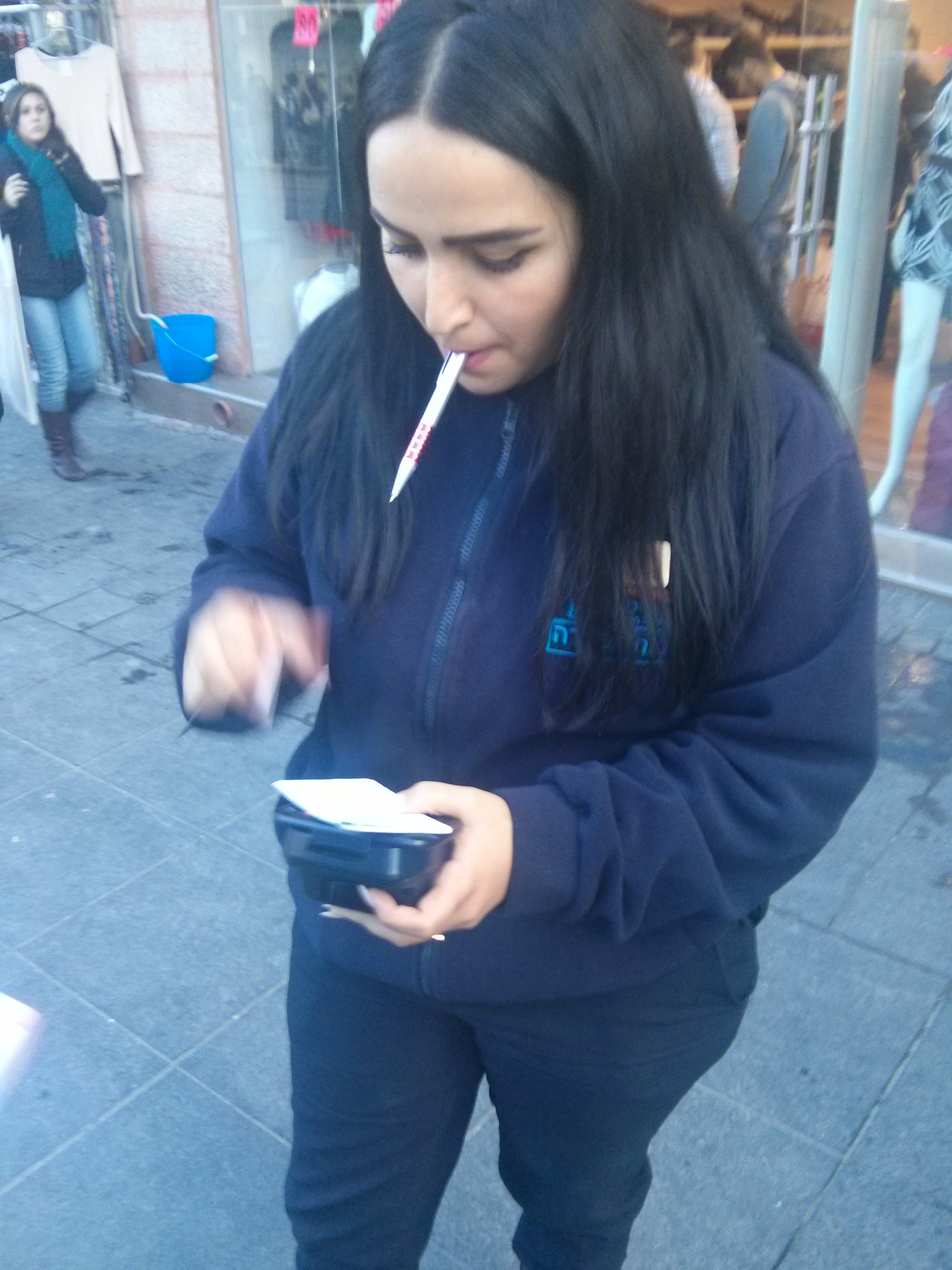 A CityPass inspector indiscriminately writing a fine despite the fact that the customer properly paid the fare. CityPass has been accused of handing out fines indiscriminately in order to raise its income.